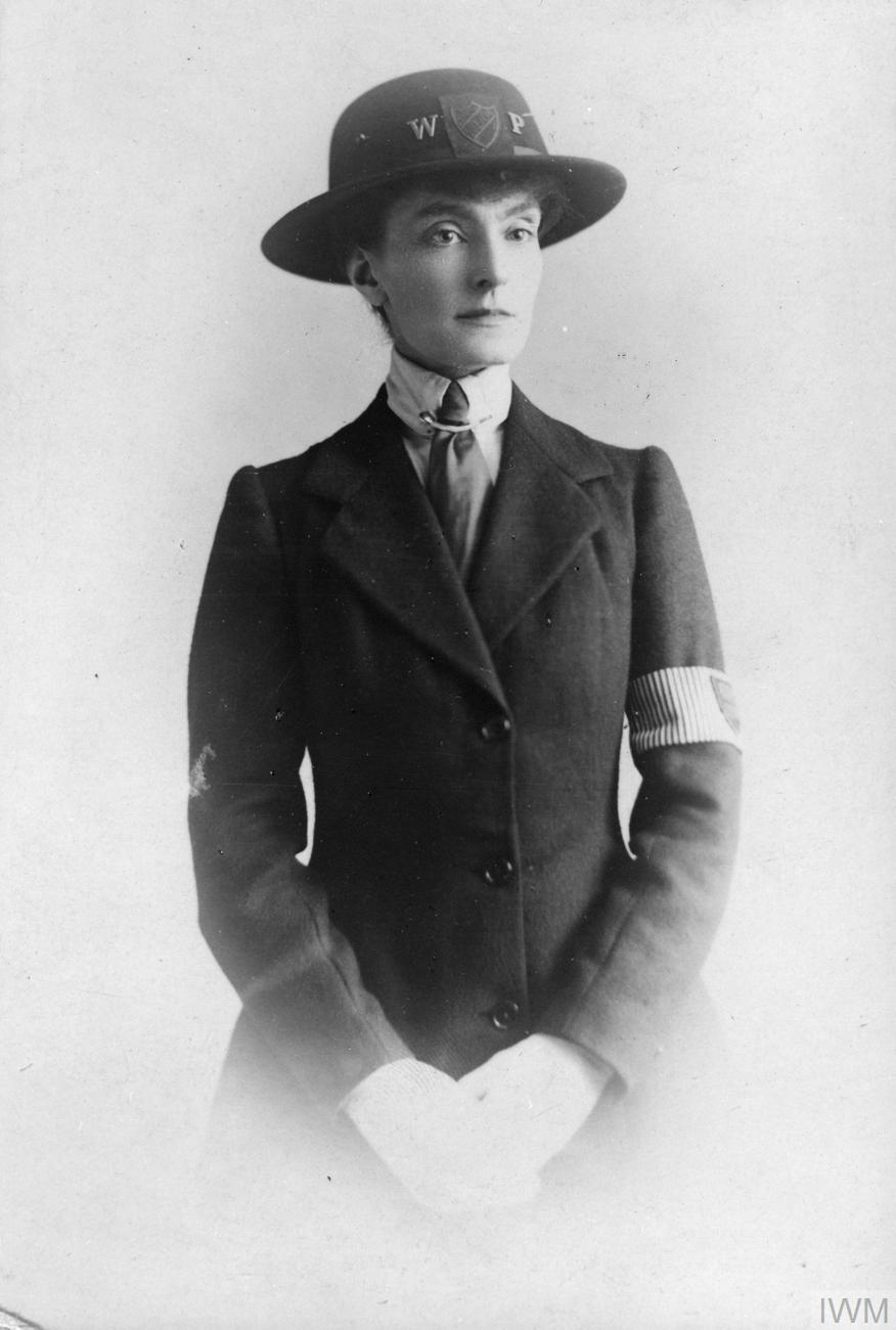 The Employment of Women in Britain, 1914-1918 Sofia Stanley in the armband and hat of the Women's Patrols.